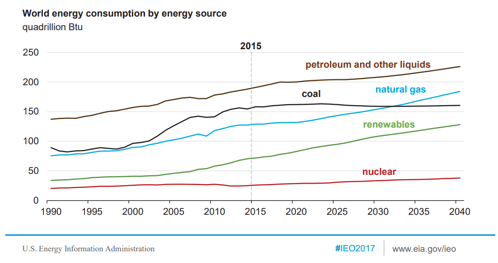 World energy consumption outlook from the International Energy Outlook, published by the U.S. DOE Energy Information Administration 2017